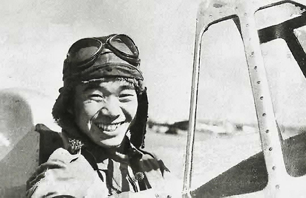 Saburō Sakai (1916-2000) in the open cockpit of a Mitsubishi A5M "Claude" (Hankow airfield, China in 1939)